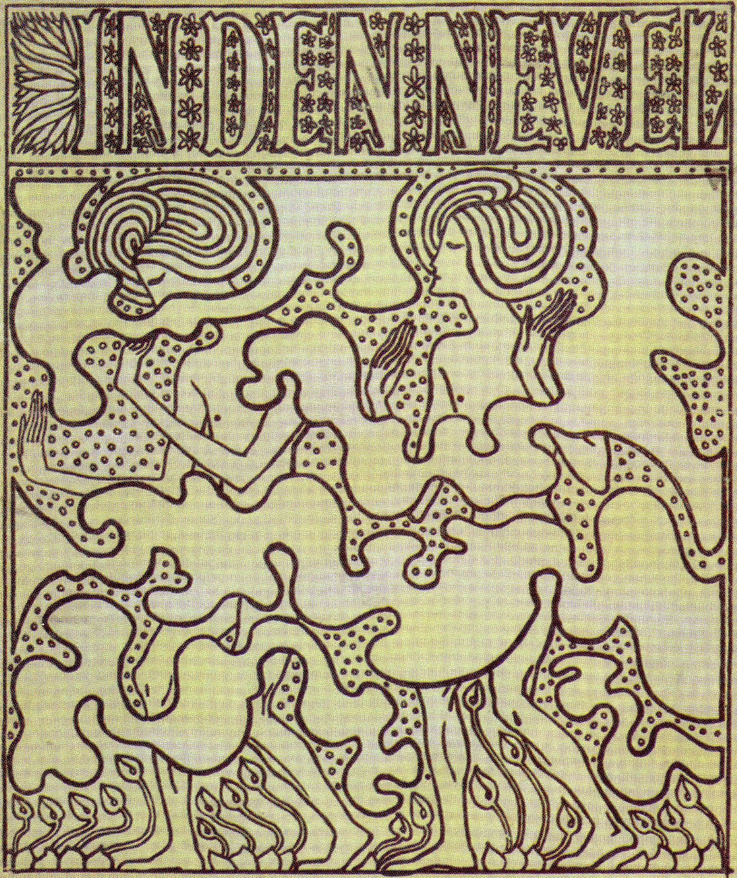 Cover of student magazine In den Nevel, detail.